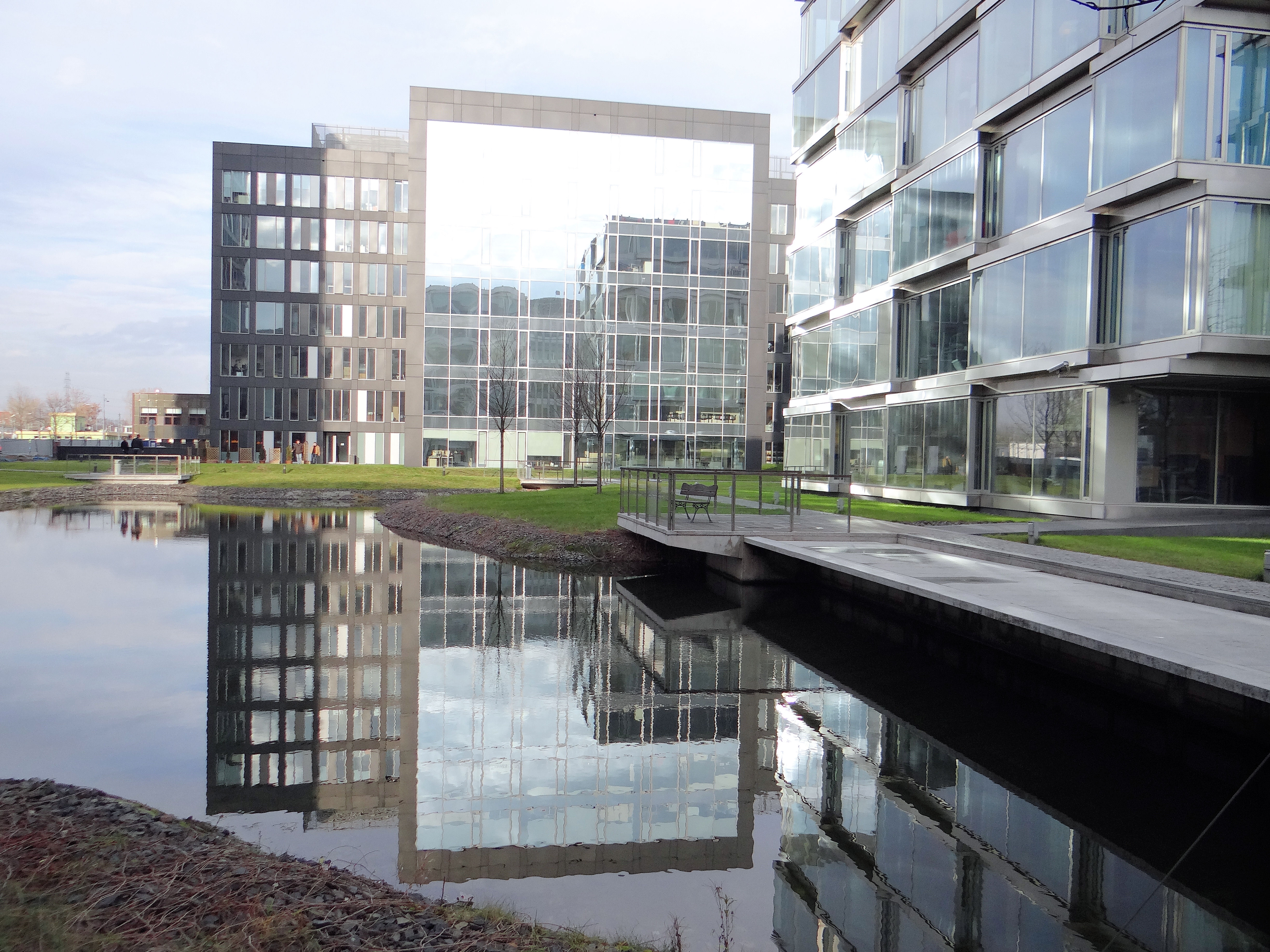 Platinium Business Park at 42/44 Domaniewska Street in Warsaw